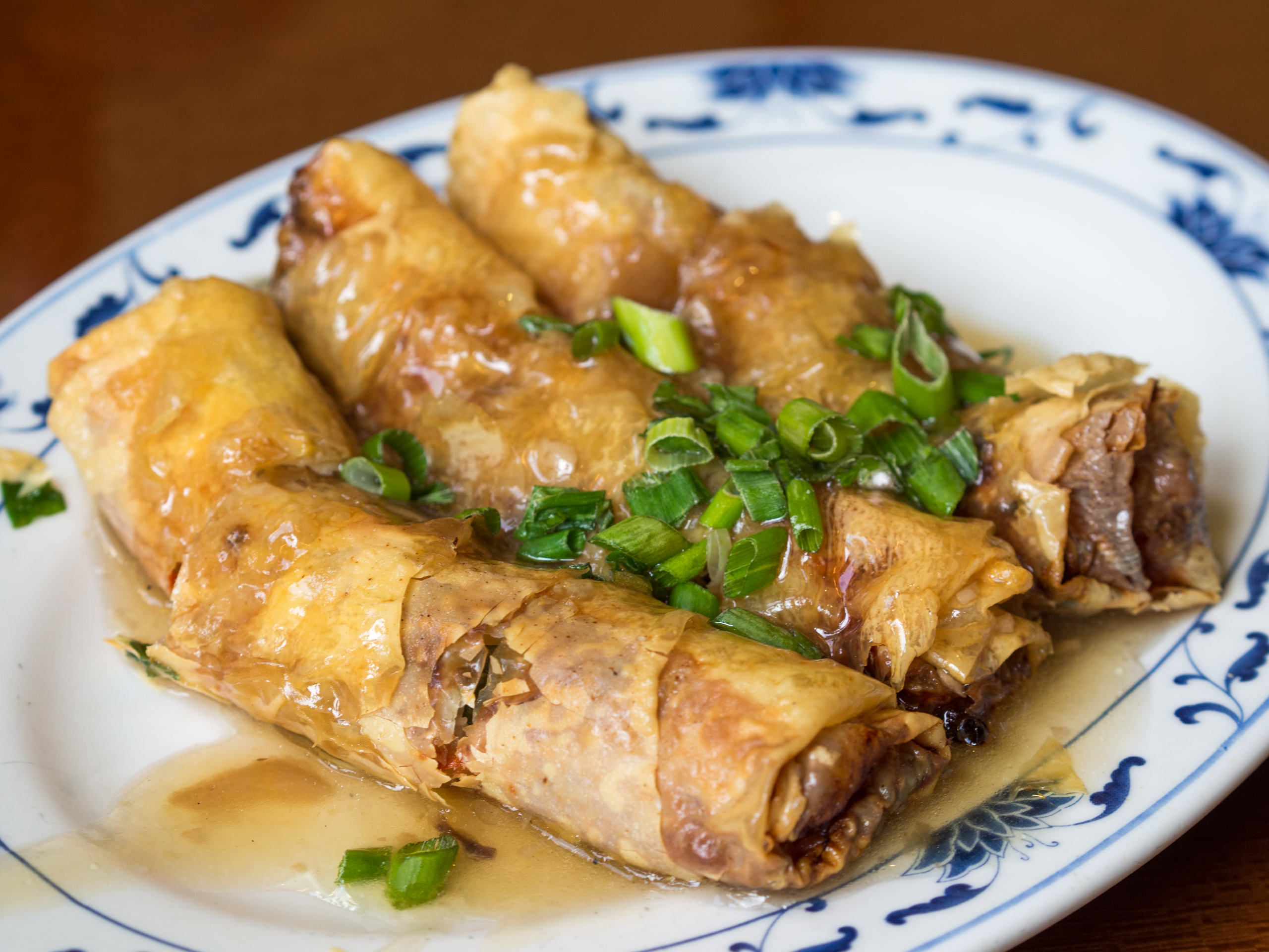 Deep-fried tofu skin roll (腐皮捲, fu pei gyun) with a minced pork and vegetable filling; at a dim sum restaurant in The Hague, Netherlands.